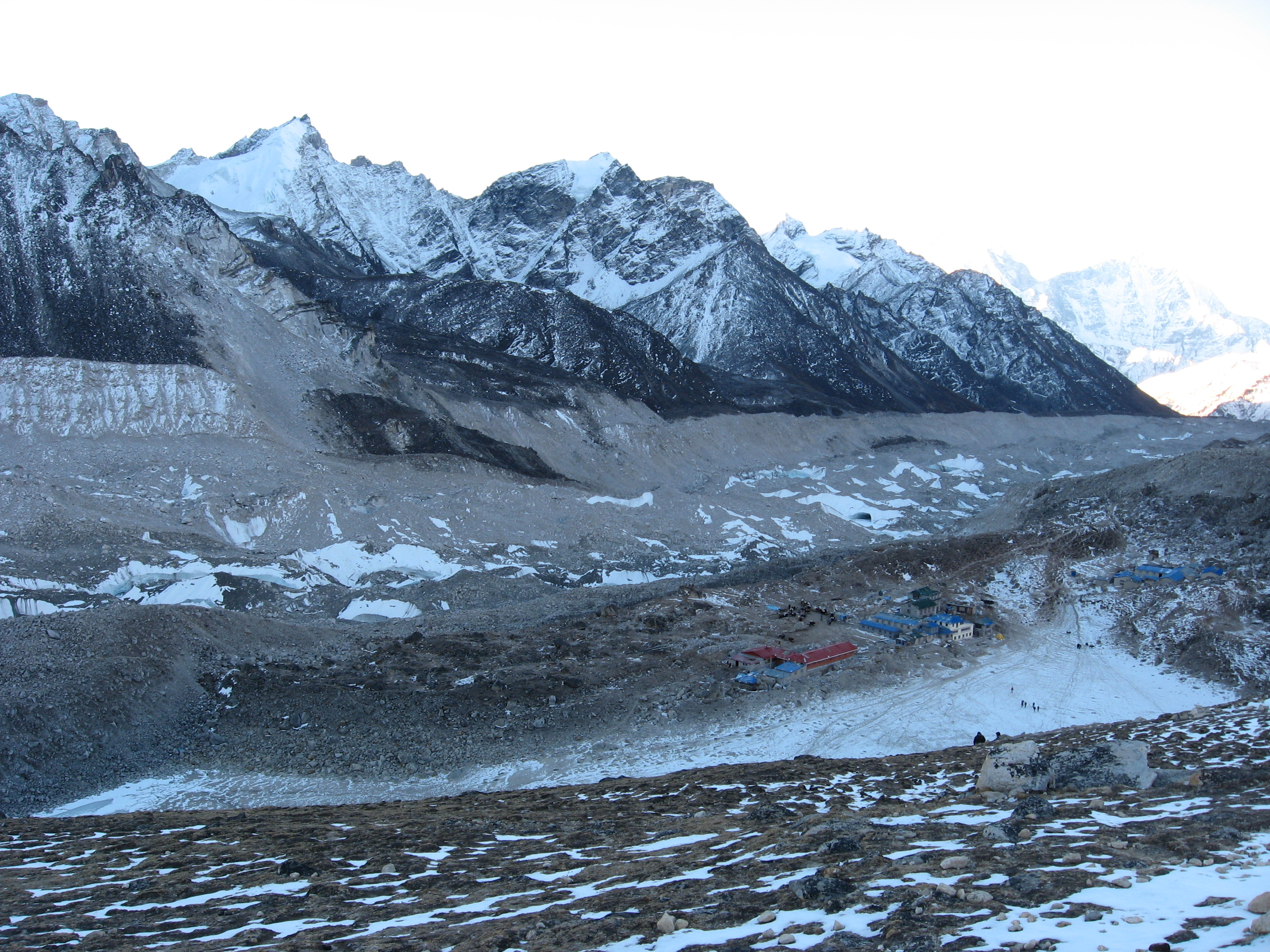 Approaching Gorak Shep from Kala Patthar mountain.